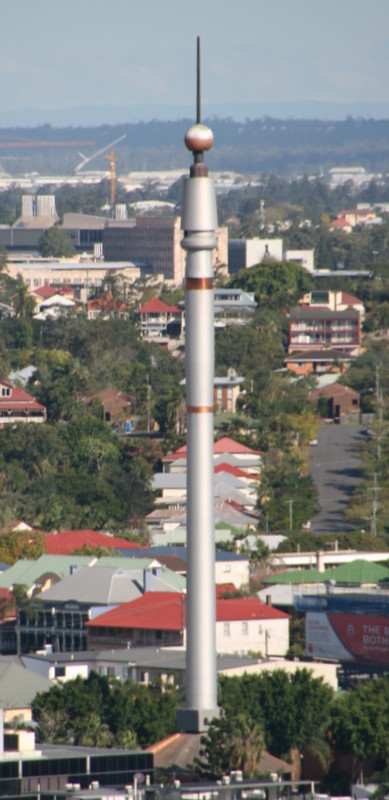 The Skyneedle in Brisbane, Australia